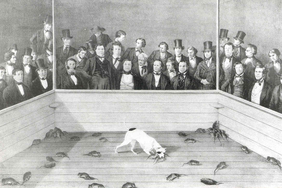 Title: "Terrier Dog Major ratting" circa 19th century Artist: Unknown Source: My personal collection Headphonos Subject: The celebrated Terrier dog "Major" killing 100 rats in 8 minutes, 58 seconds. The artist has taken great care to note the facial features of the spectators, undoubtedly notable figures of those times.